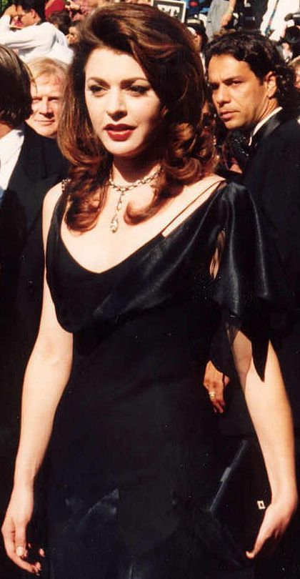 Jane Leeves on the red carpet at the Emmys 9/11/94